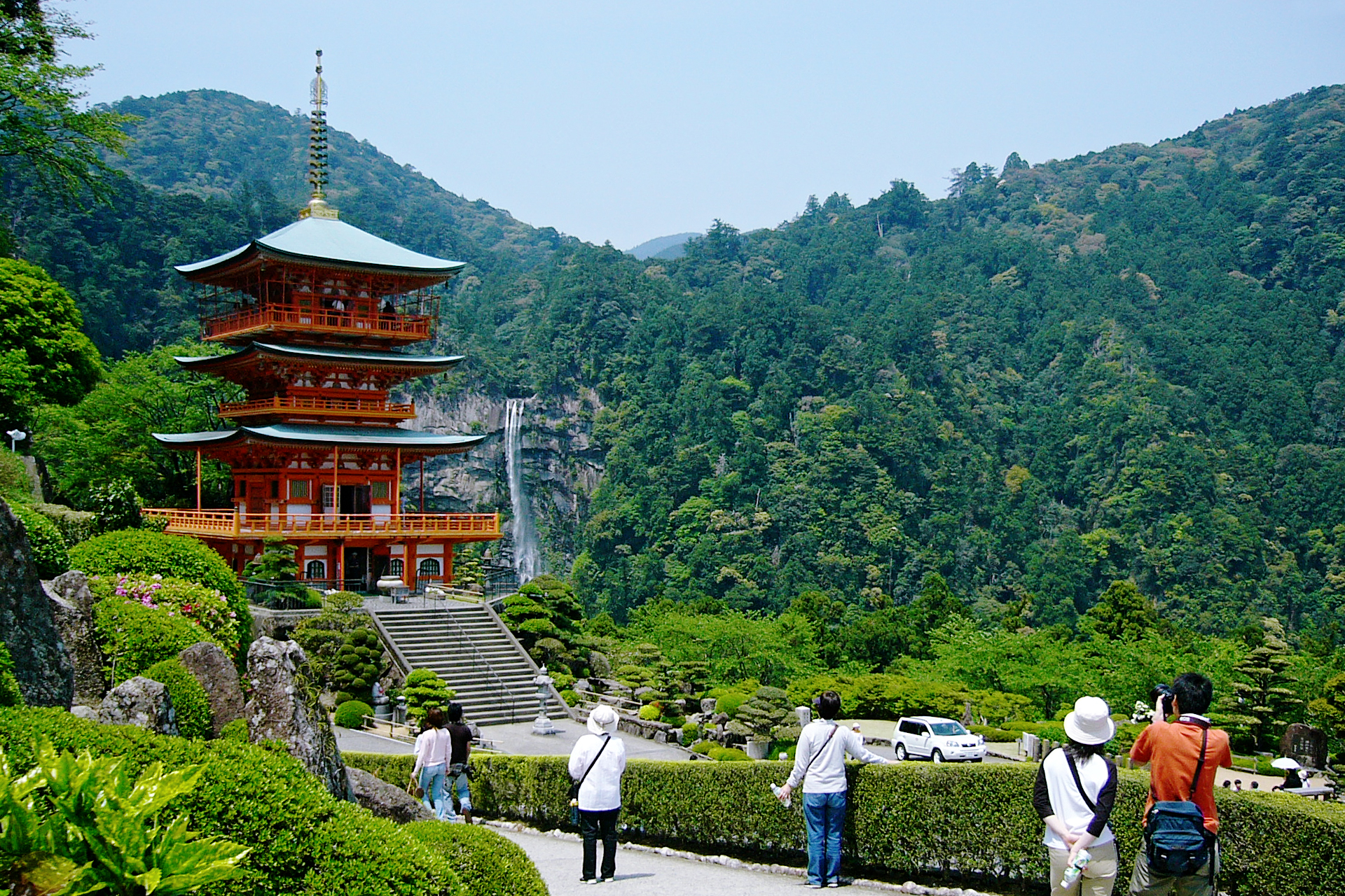 Seiganto-ji in Nachikatsuura, Wakayama prefecture, Japan